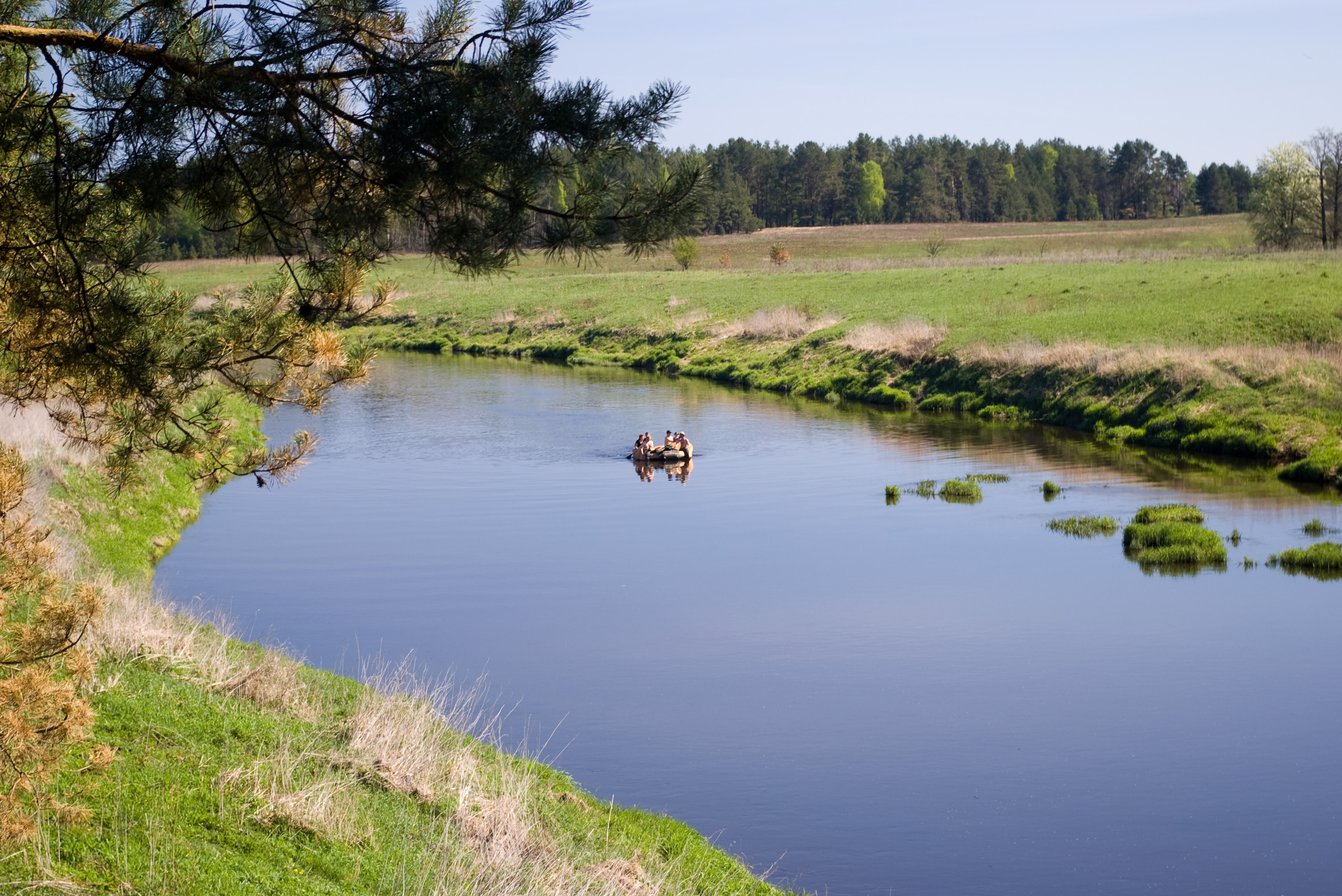 Šešupė River